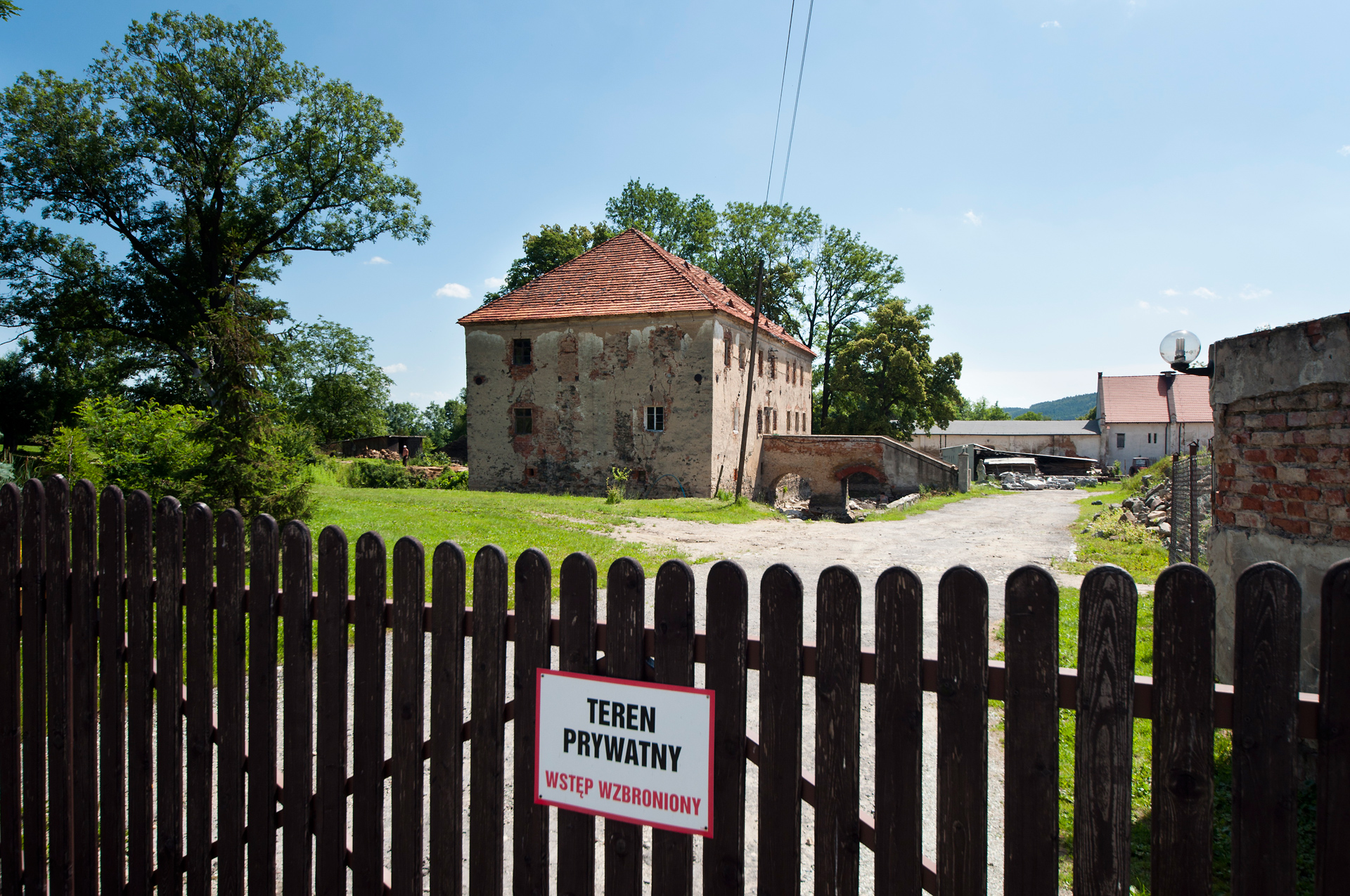 Renaissance manor in Będkowice, formerly Bankwitz, Lower Silesia